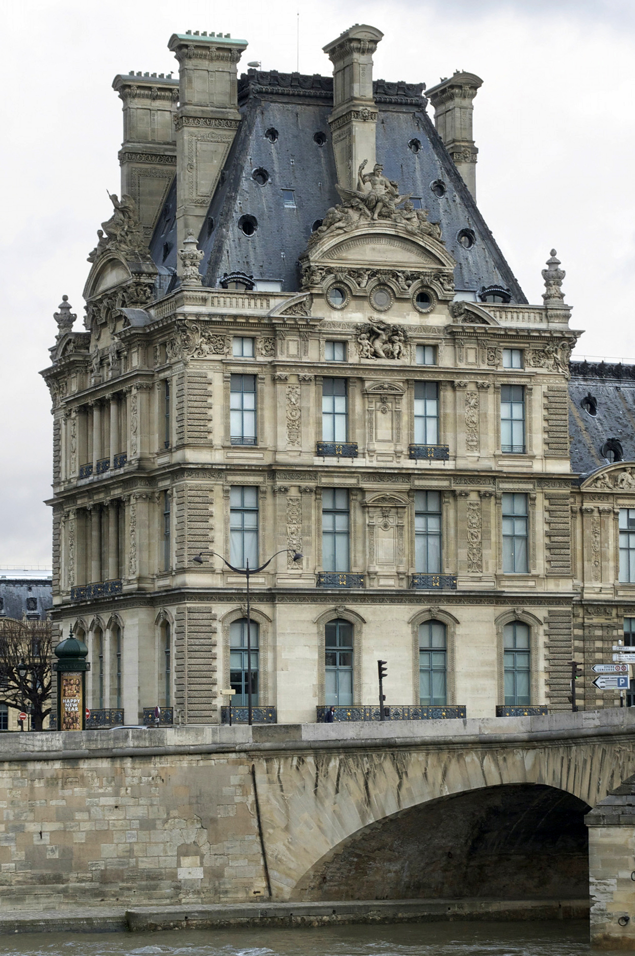 The Pavillon de Flore, seen from the left bank of the Seine River in Paris.